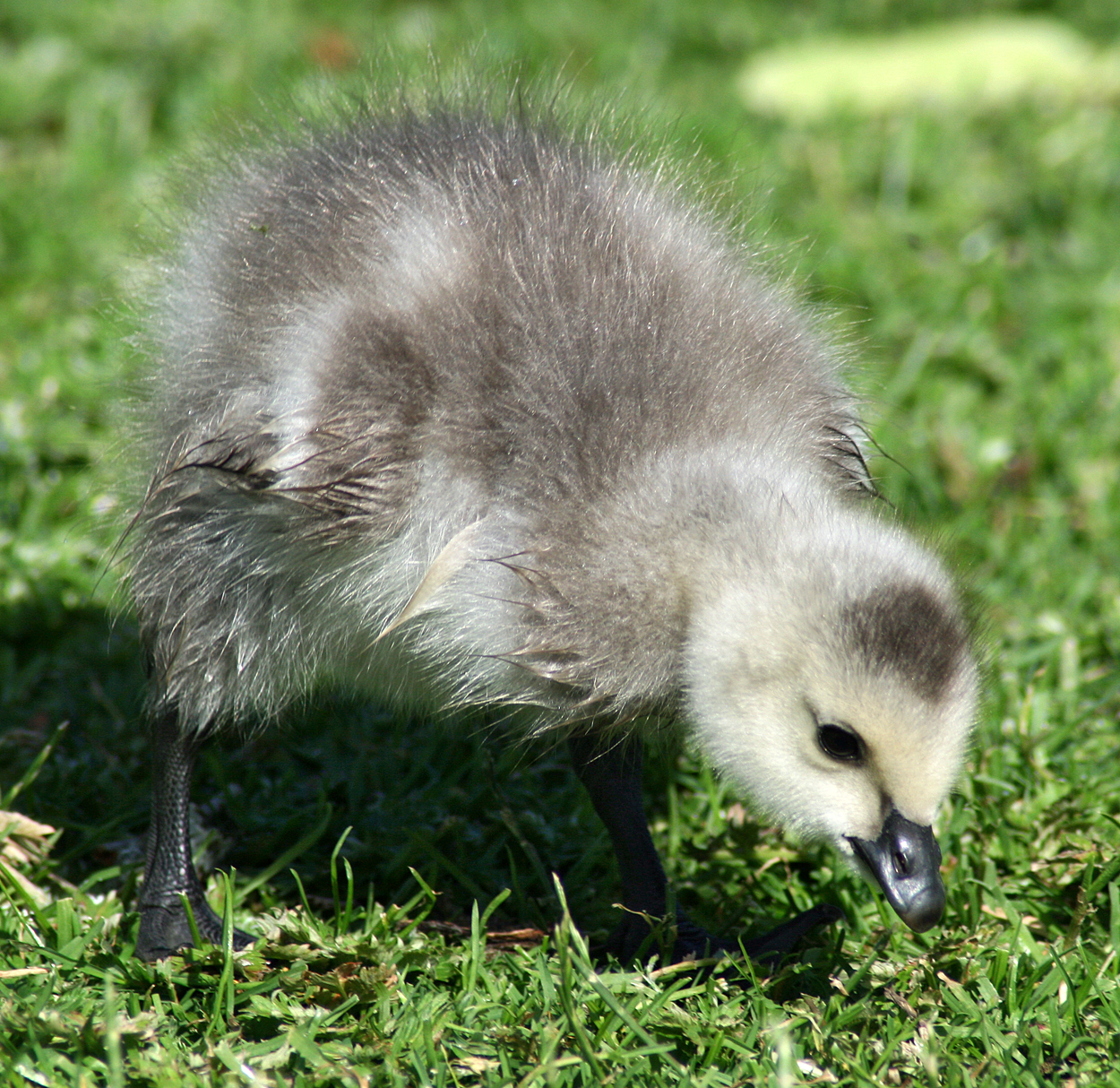 Branta leucopsis, young one, seen in Djurgården, Stockholm.